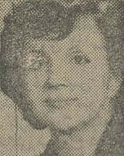 Ettela'at newspaper, No.14741, dated Tir 3, 1354 (24 June 1975), page 29.